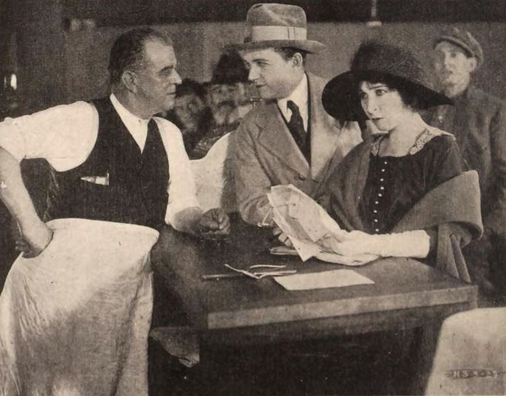 Still from the American crime drama film The Greater Profit (1921) with an unidentified actor, Pell Trenton, and Edith Storey, on page 54 of the July 2, 1921 Exhibitors Herald.